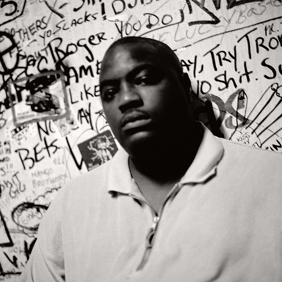 Backstage in Berlin/Germany 1997